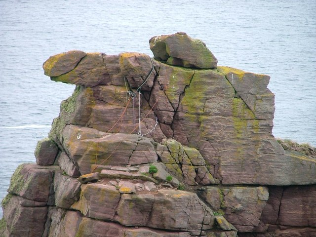 Climbing Rubbish, Old Man of Stoer. The liberal chucking of climbing equipment on this natural feature saddened me. It made me ashamed to have once been part of the climbing fraternity.